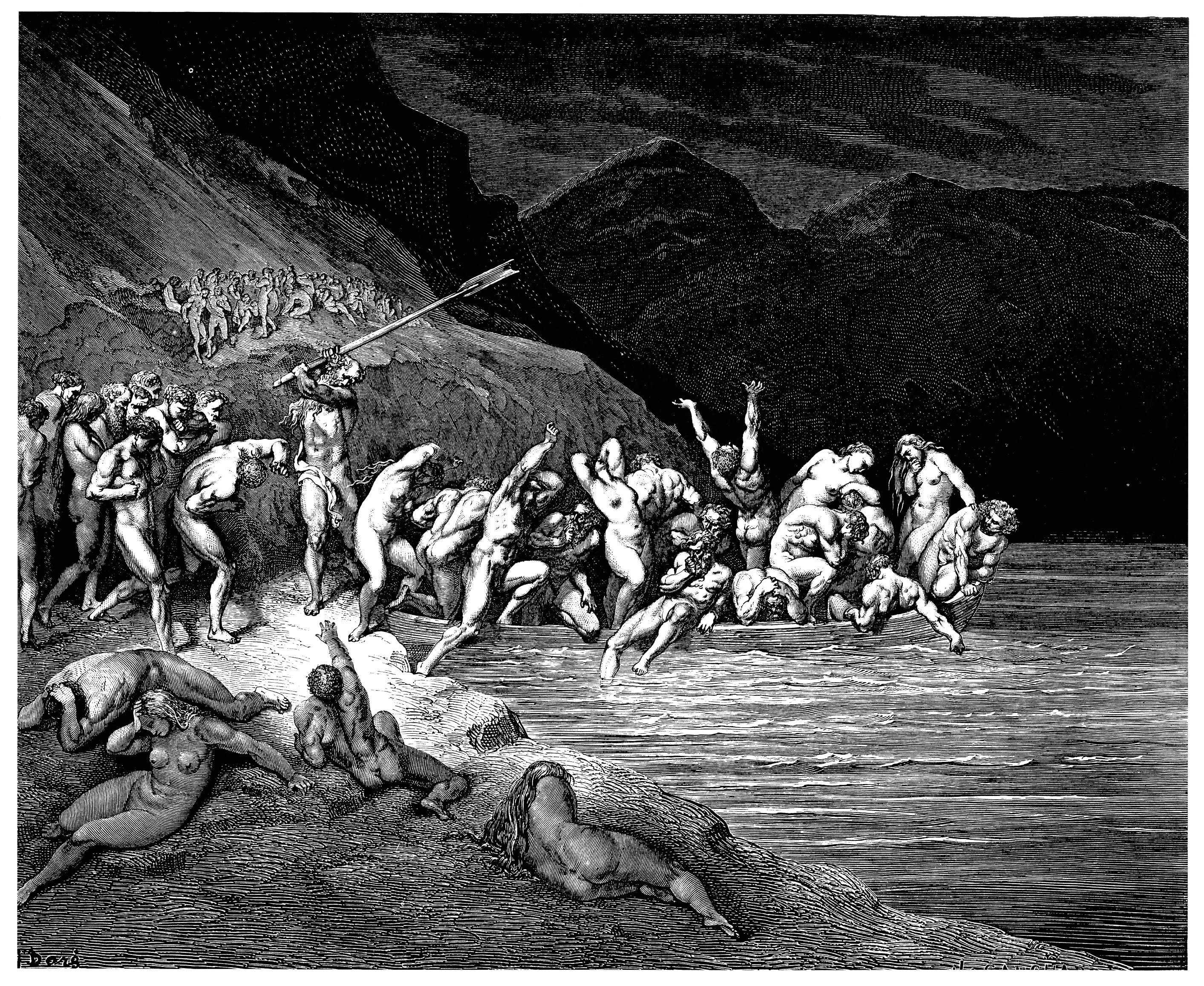 Gustave Doré's illustration to Dante's Inferno. Plate X: Canto III: Charon herds the sinners onto his boat. "Charon the demon, with eyes of glede, / Beckoning to them, collects them all together, / Beats with his oar whoever lags behind.'" (Longfellow's translation)